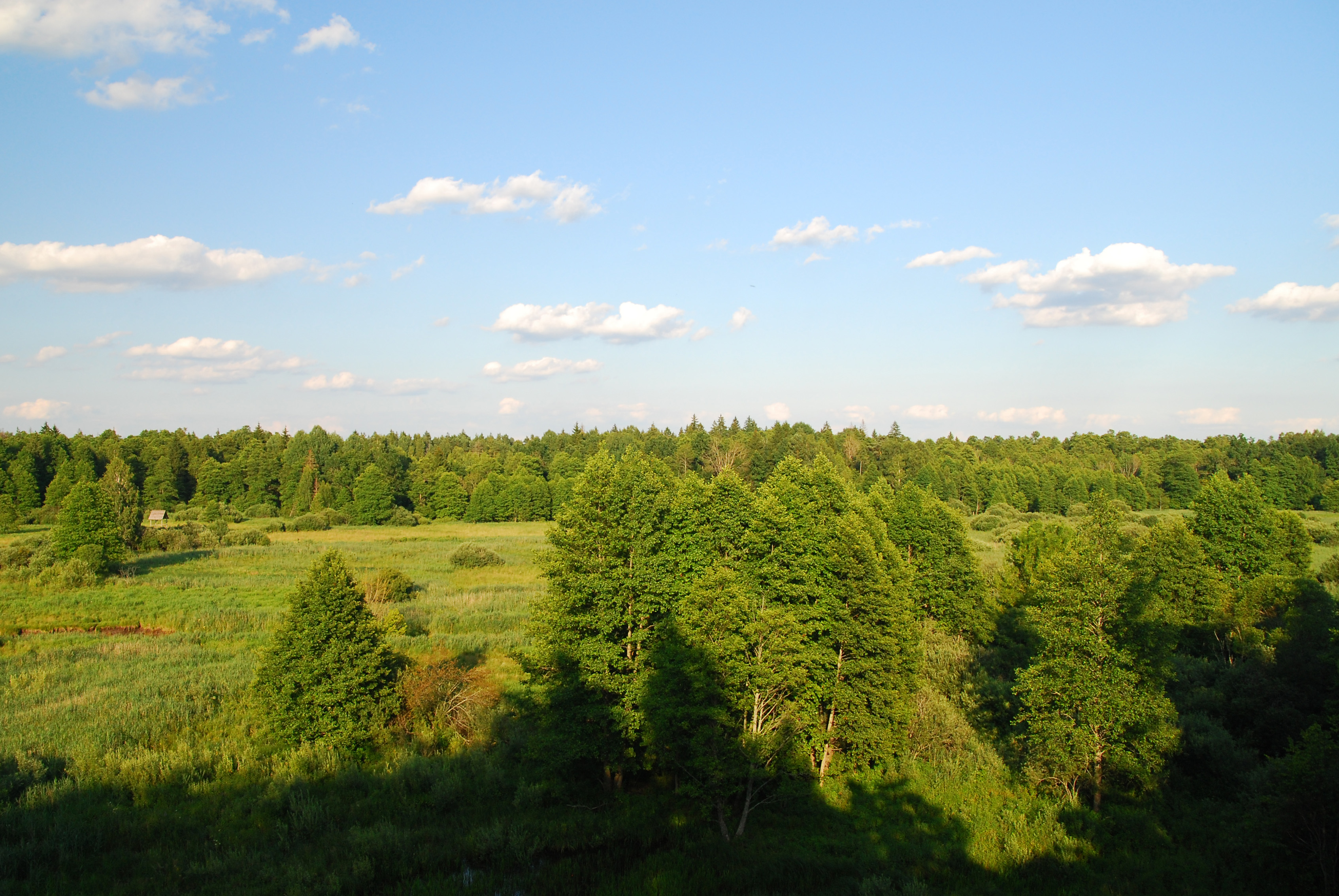 This photo from Podlaskie Voievodeship was taken during Polish Wikiexpedition 2009 set up by Wikimedia Polska Association. The making of this document was supported by Wikimedia Polska. Białowieski National Park Landscape